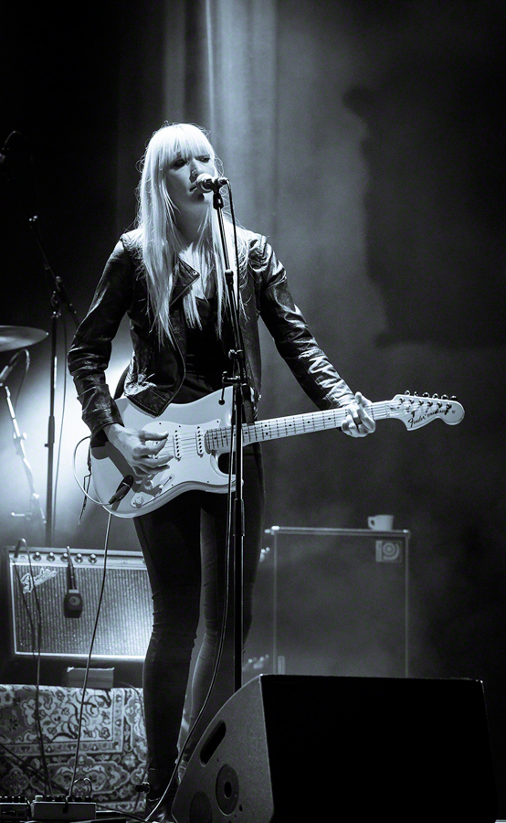 Hilma Nikolaisen and bank performs at Cosmopolite in Oslo.